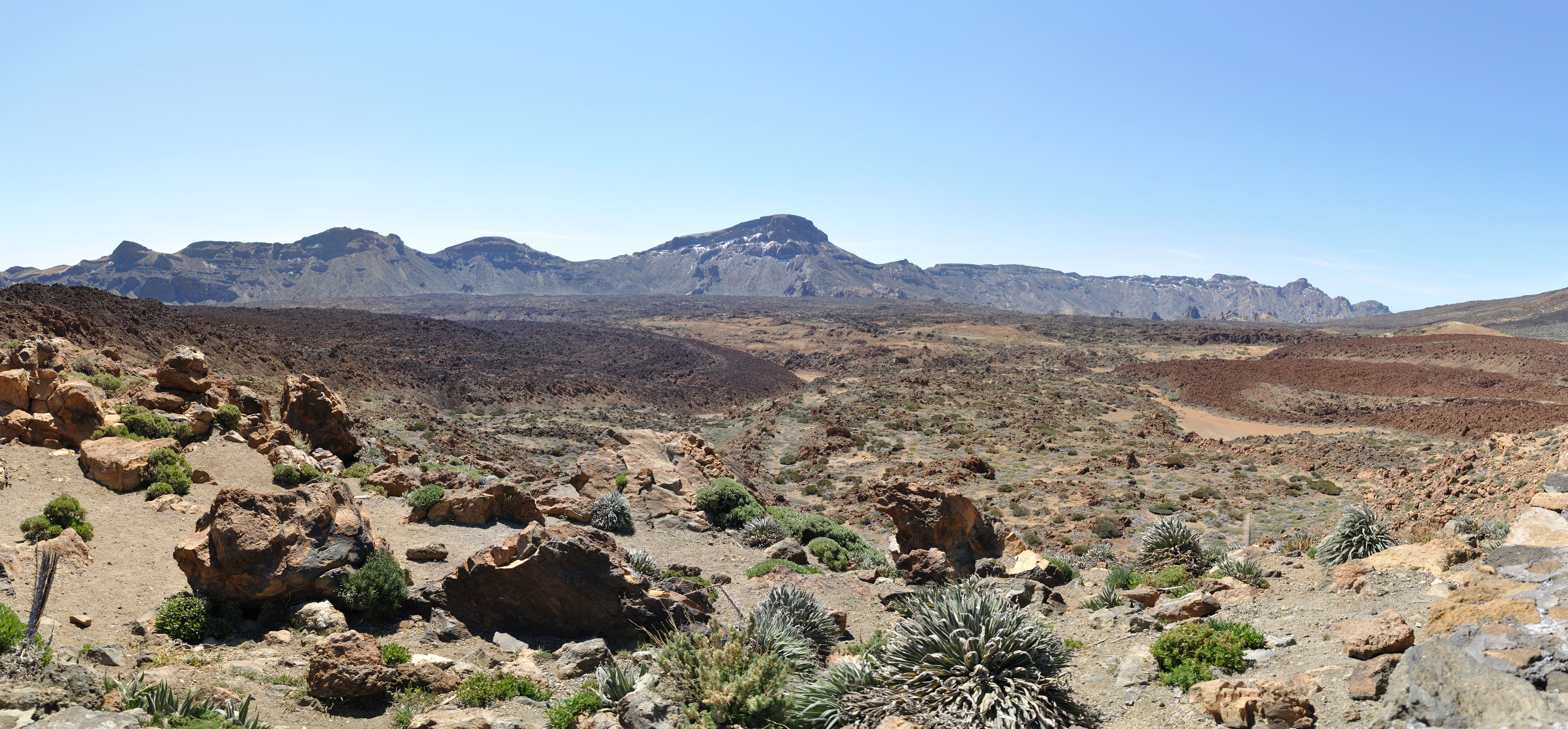 Phonolitic lava flows in the volcanic cauldron "Caldera de las Cañadas" as seen from the viewpoint "El Tabonal Negro" towards mountain "Montana Guajara", Teide National Park, Tenerife, Spain.